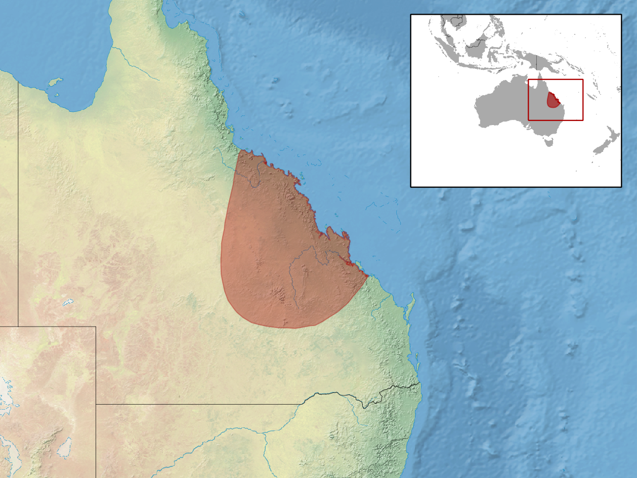 geographic distribution of Eulamprus sokosoma